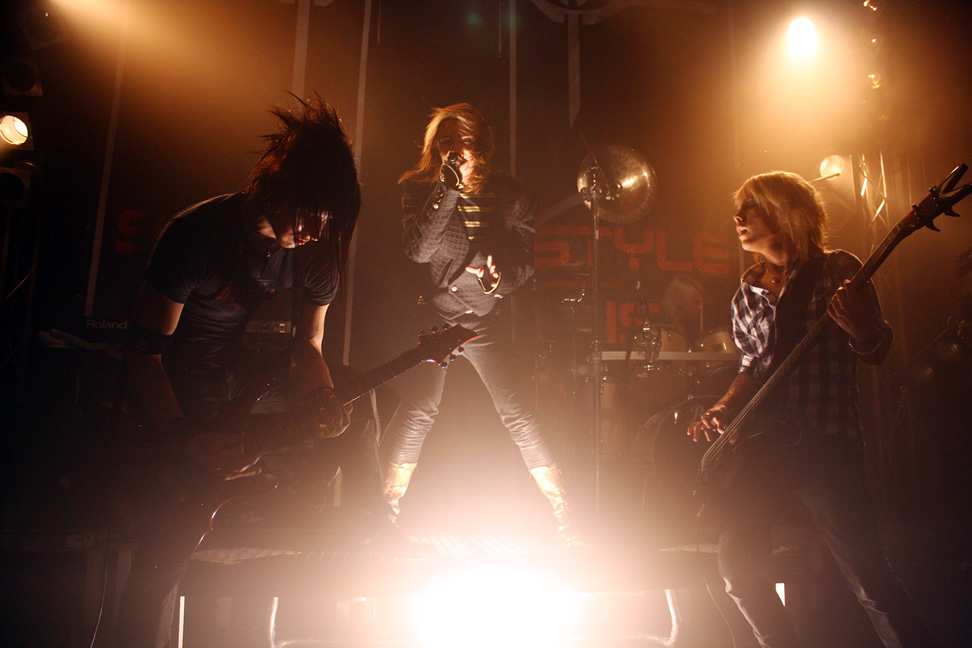 Cinema Bizarre in Hamburg (Grünspan).